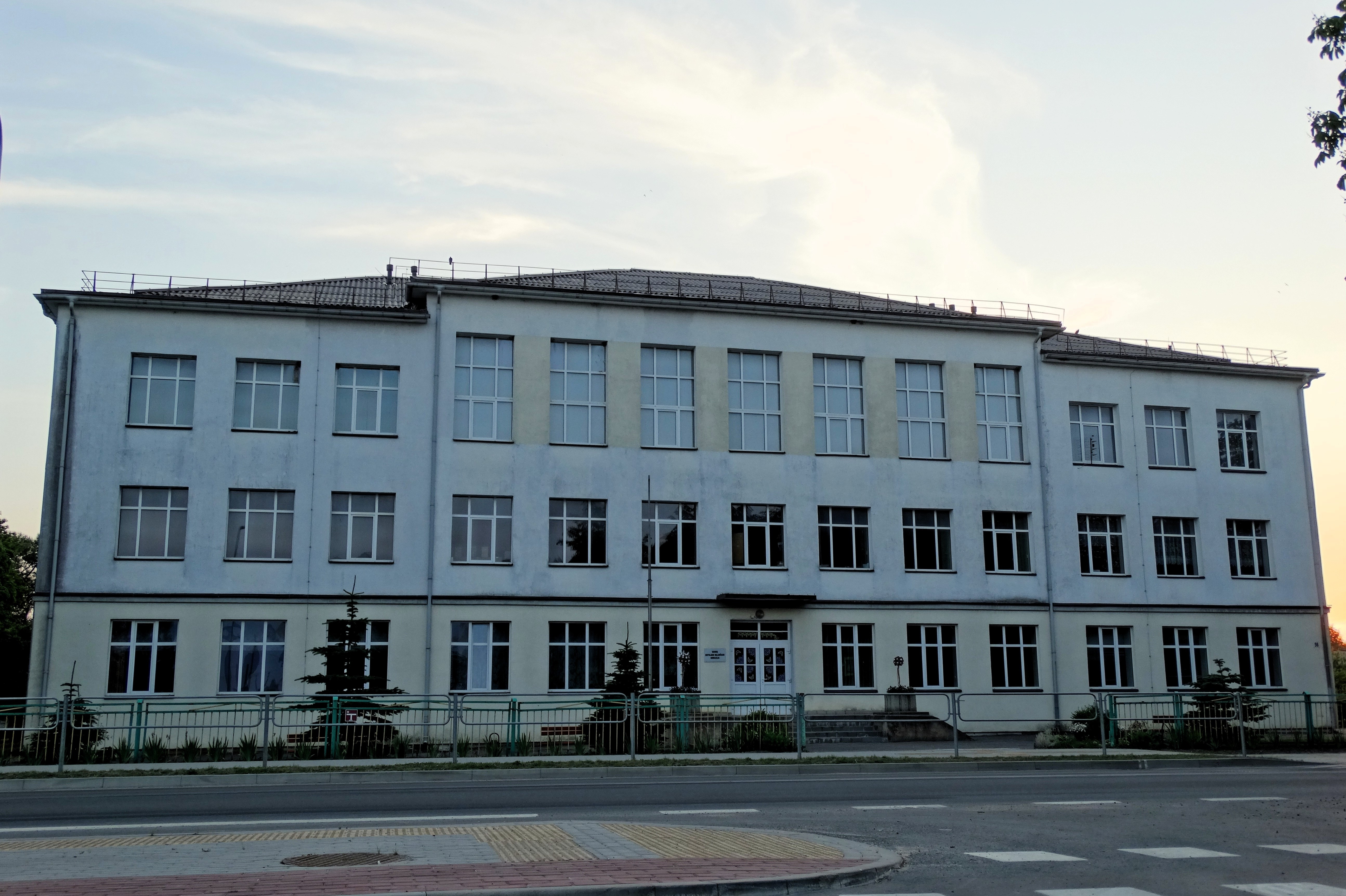 Gymnasium, Varniai, Telšiai district, Lithuania